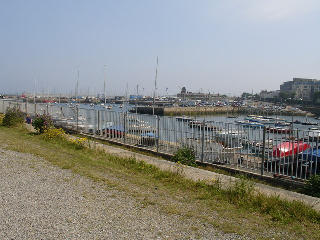 Trader's Wharf - Dun Laoghaire Harbour